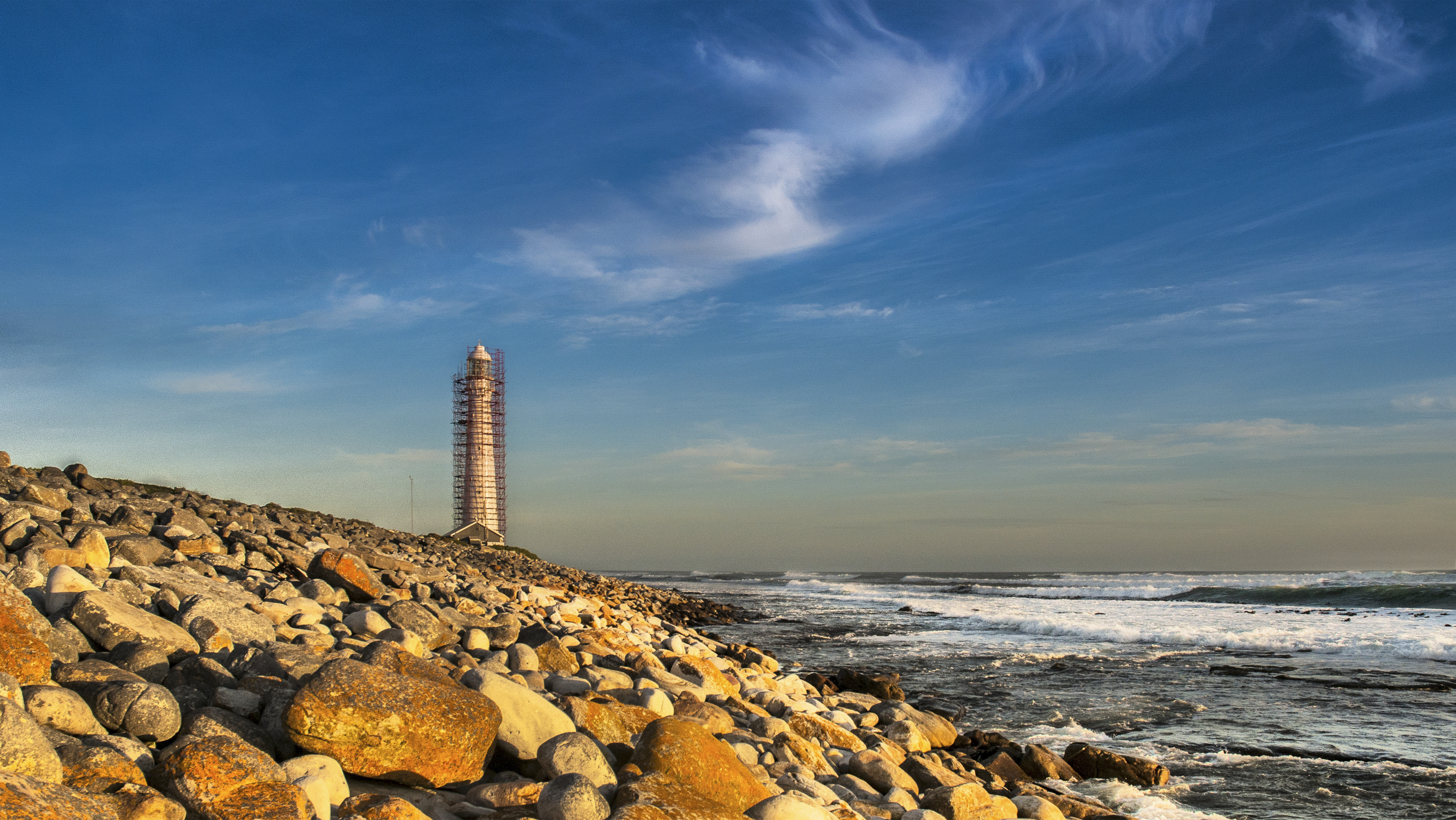 Kommetjie Late Afternoon